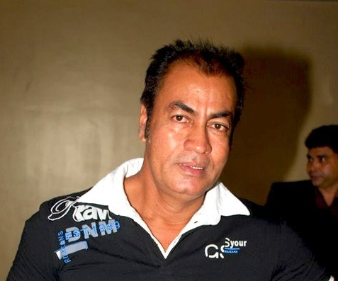 Pradeep Rawat in a function